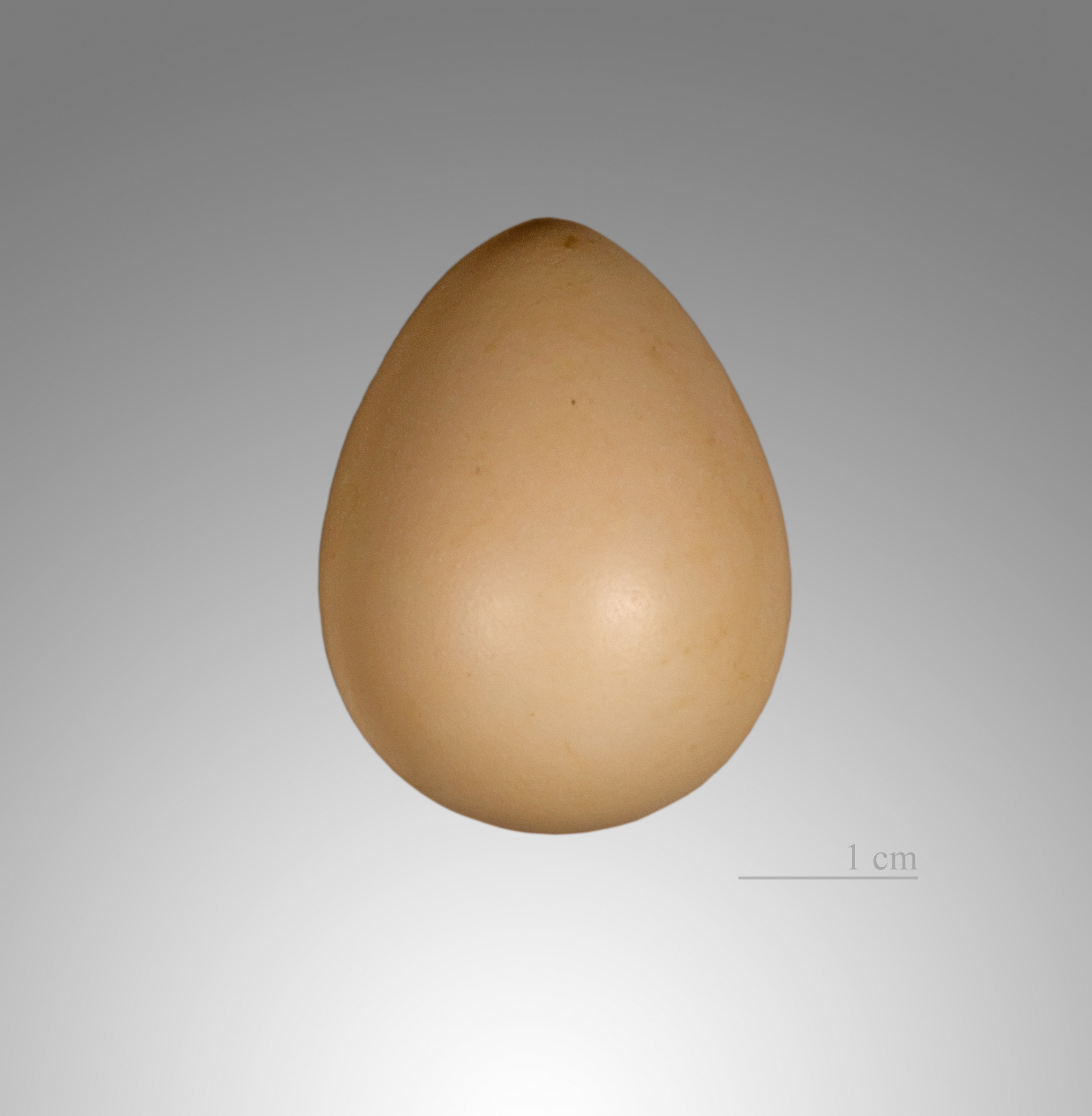 Egg of Mountain Quail . Collection of Jacques Perrin de Brichambaut.